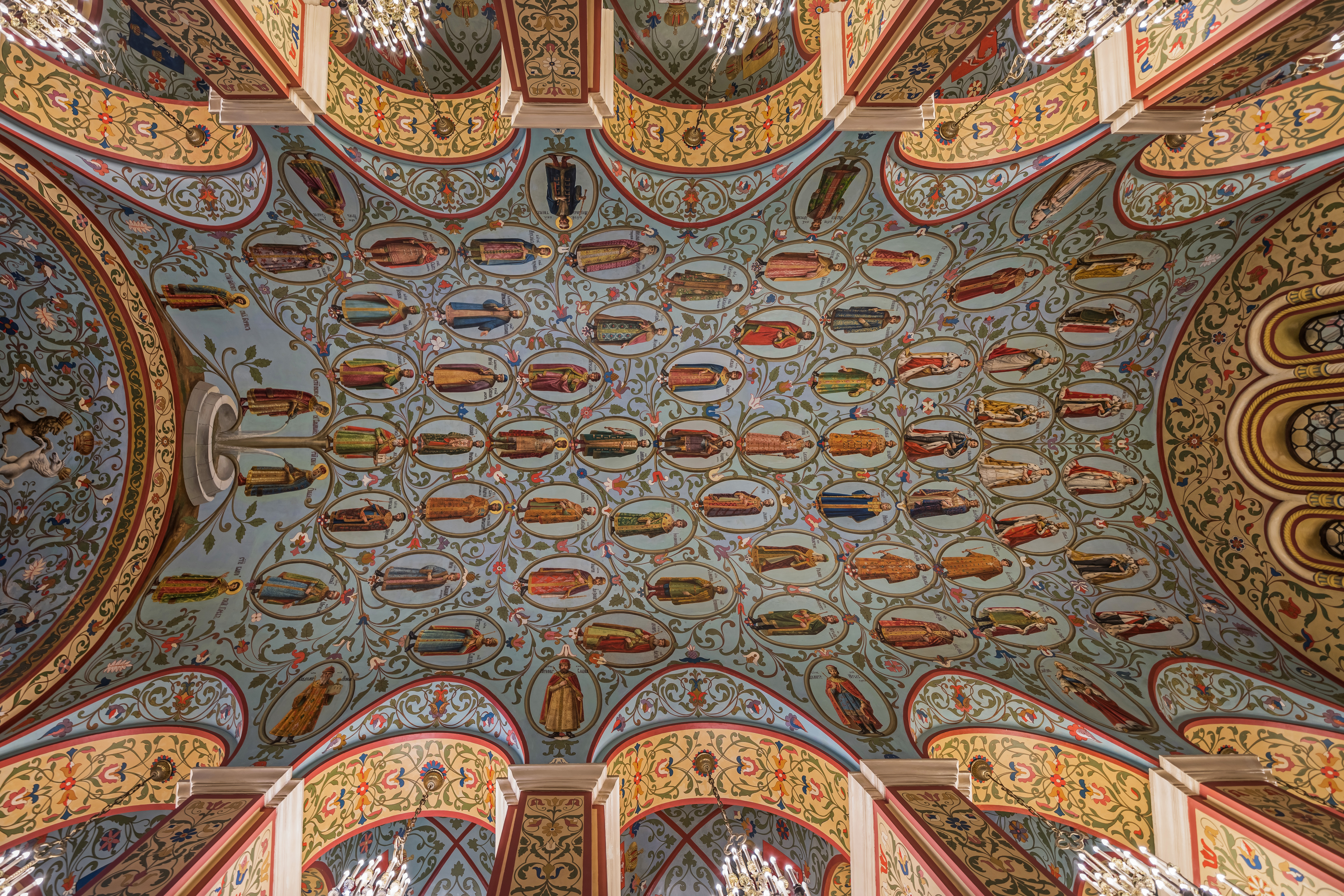 Interior of the main building of State Historical Museum in Moscow, Russia